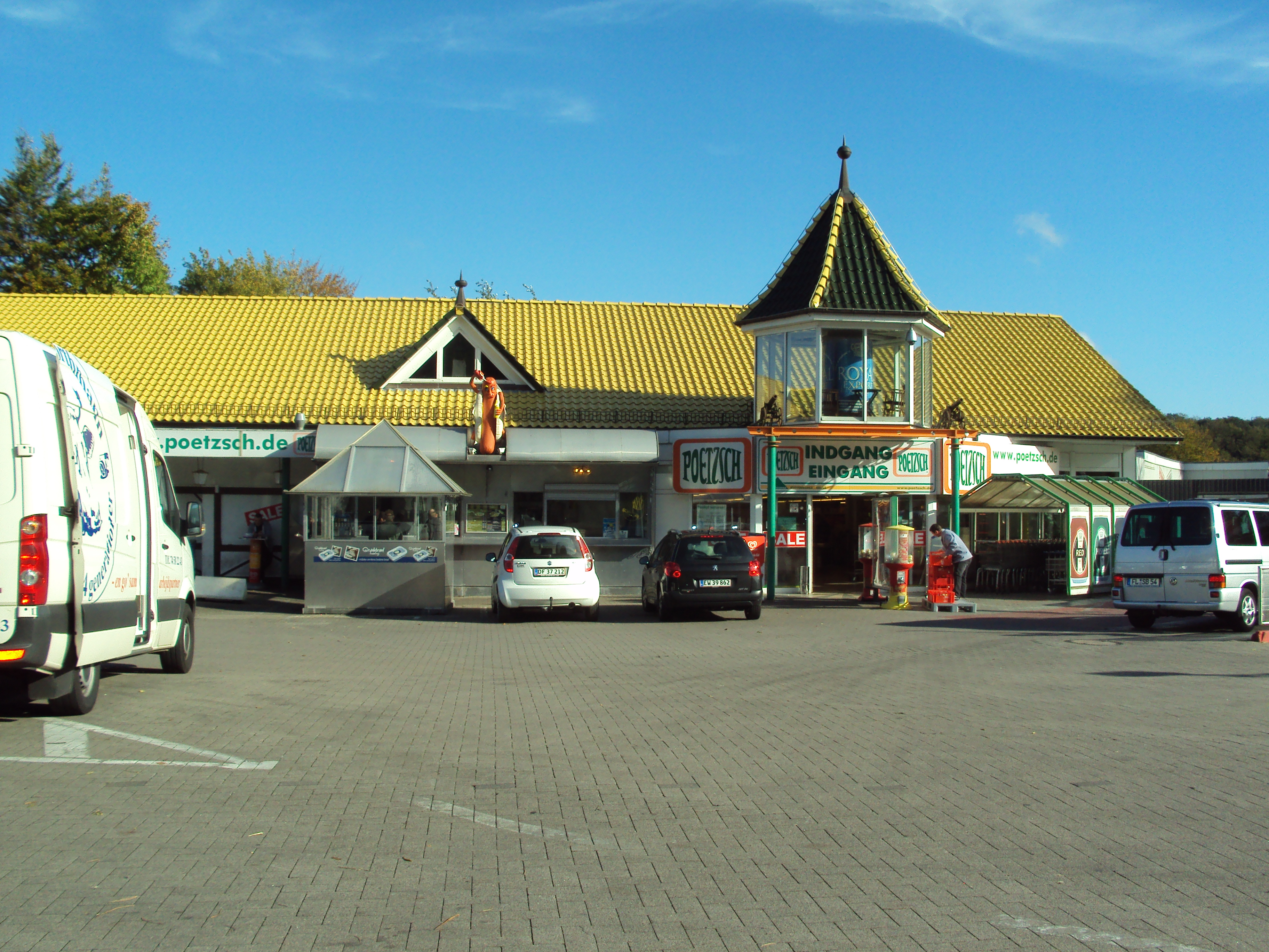 Border shop between Flensburg and Kruså. Früher wohl Poetzsch; heute wohl Calle.